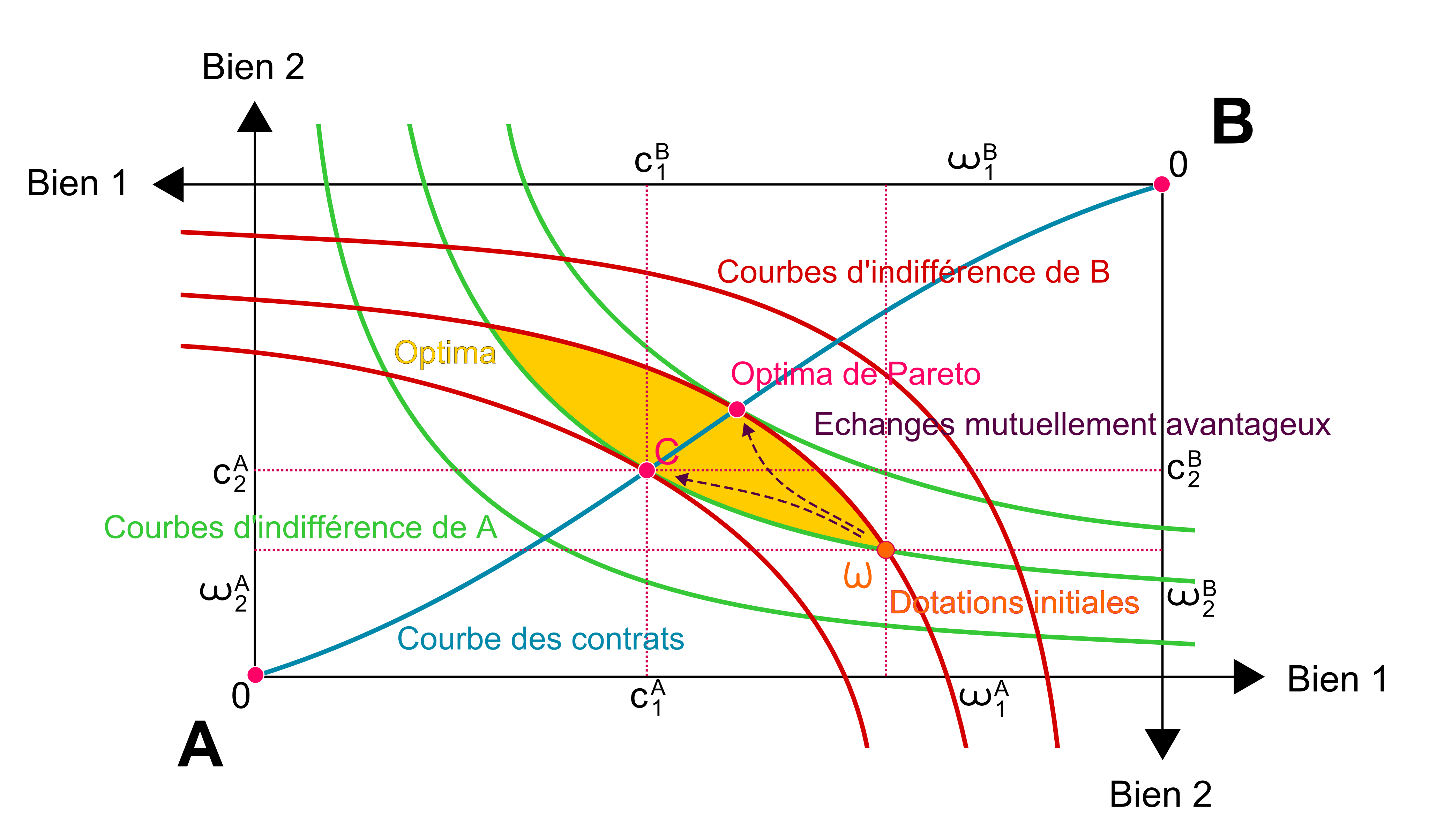 A graphical illustration of the first Welfare theorem in an Edgeworth box. At least one Pareto-optimum point exists for any first situation.